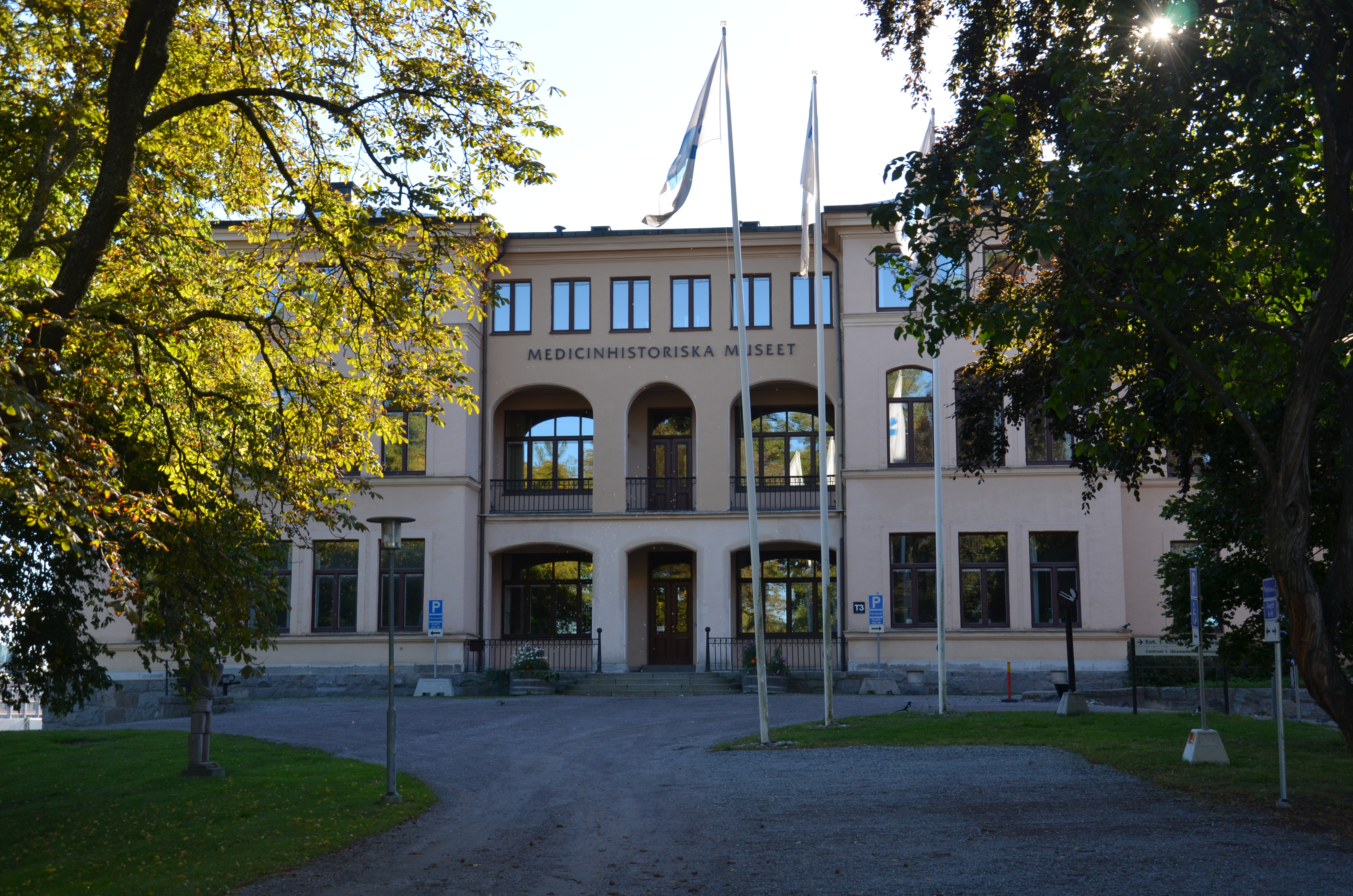 Medicinhistoriska museet, Stockholm, located at Eugeniahemmet at Karolinska Universitetssjukhuset Solna, closed 2005